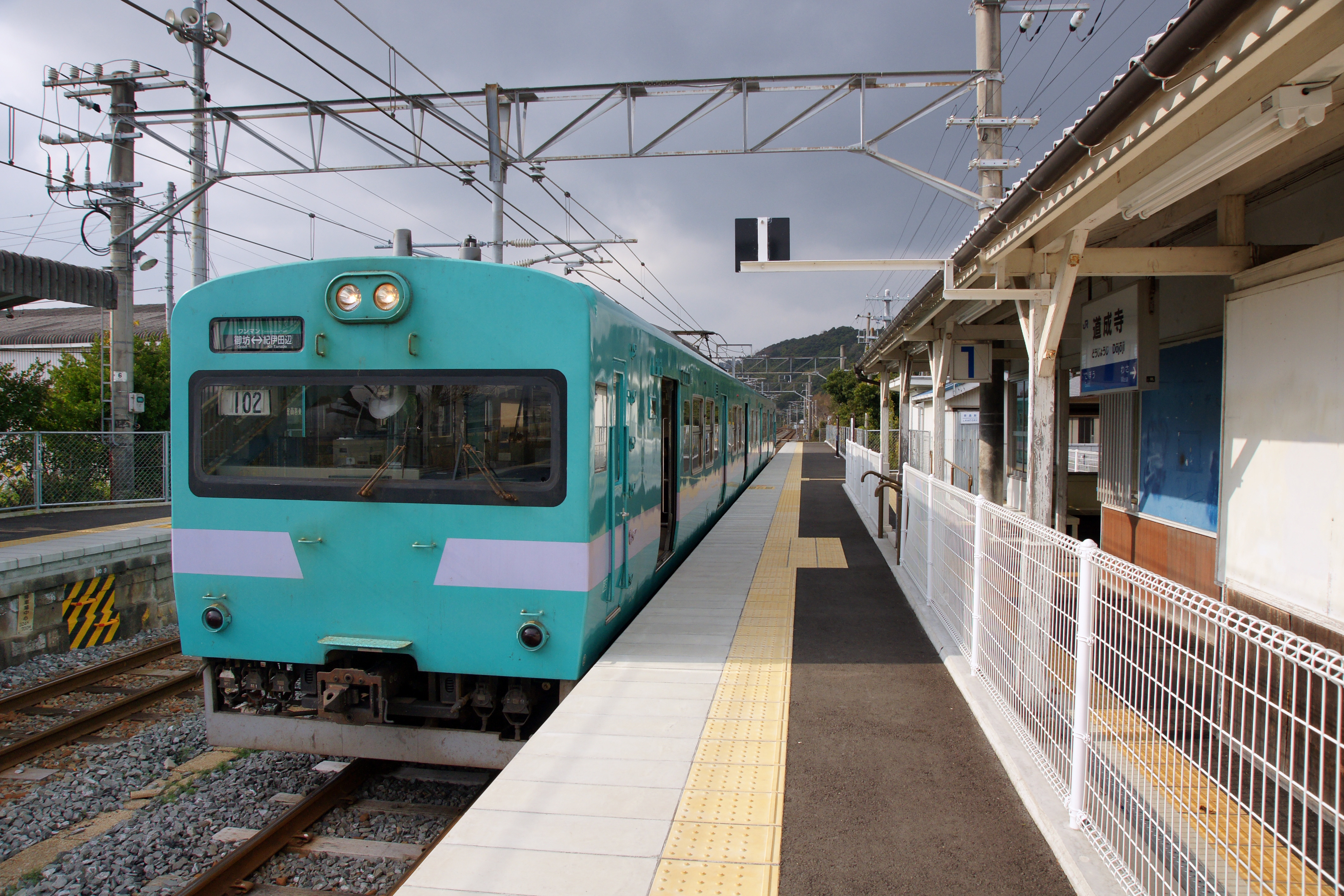 Dojoji Station, Gobo, Wakayama prefecture, Japan